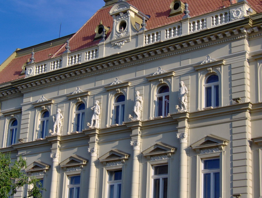 Contents 1 Опис 2 Summary 3 Licensing 4 Original upload log Опис Statues at the Finance palace